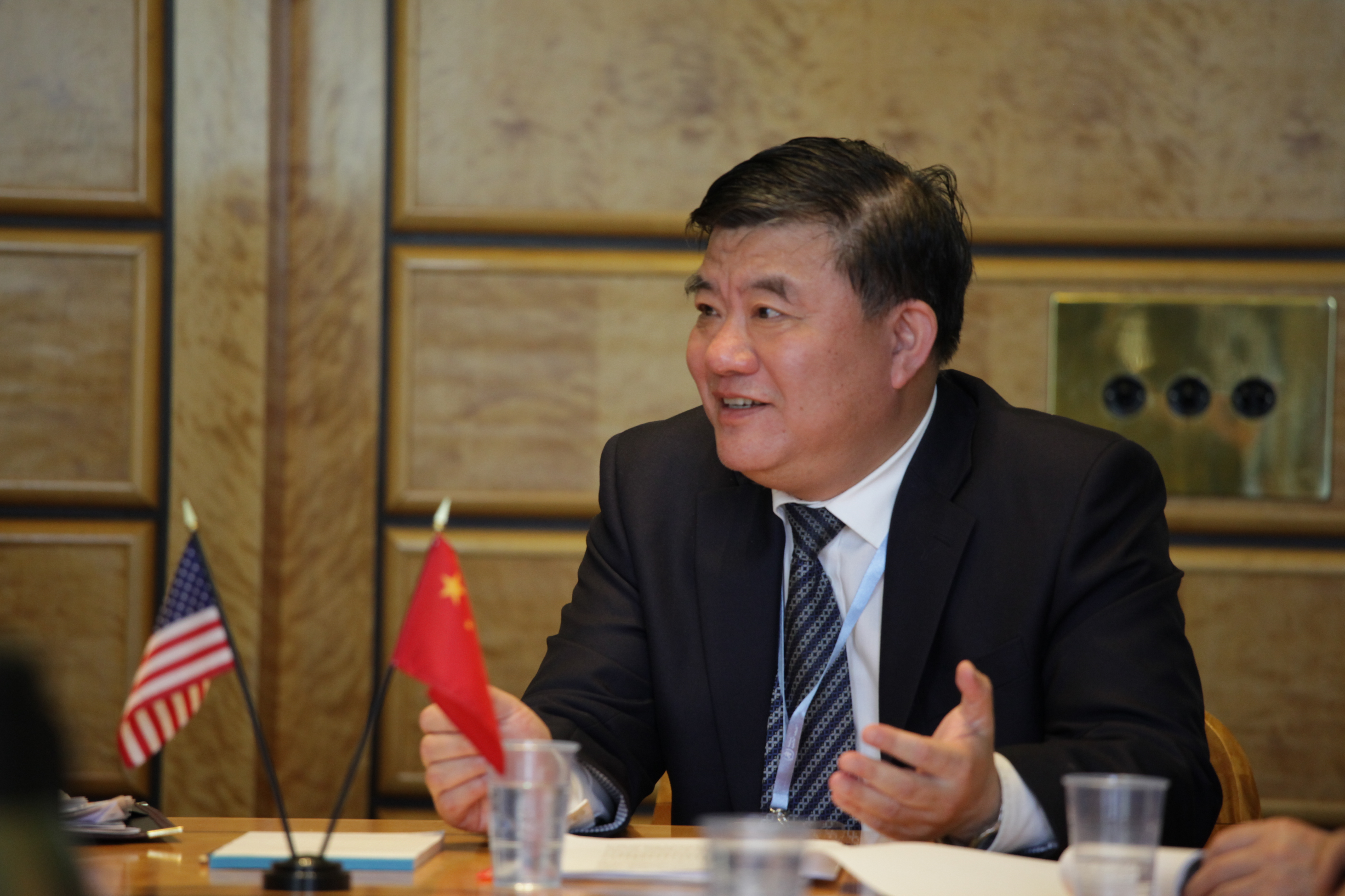 Public health officials from almost 200 nations are meeting in Geneva May 16-24, trying to devise strategies to address the many health problems that shorten life and diminish its quality for millions of people. U.S. Secretary of Health and Human Services Kathleen Sebelius is leading the U.S. delegation of about 25 to the World Health Assembly, which is the annual gathering for member states of the World Health Organization (WHO). A major focus of the meeting will be WHO's first Global Status Report on Noncommunicable Diseases which found that diseases such as cancer, cardiovascular disease, respiratory disease and diabetes cause the greatest number of deaths each year – 63 percent of all deaths worldwide in 2008. U.S. Mission Photo by Eric Bridiers